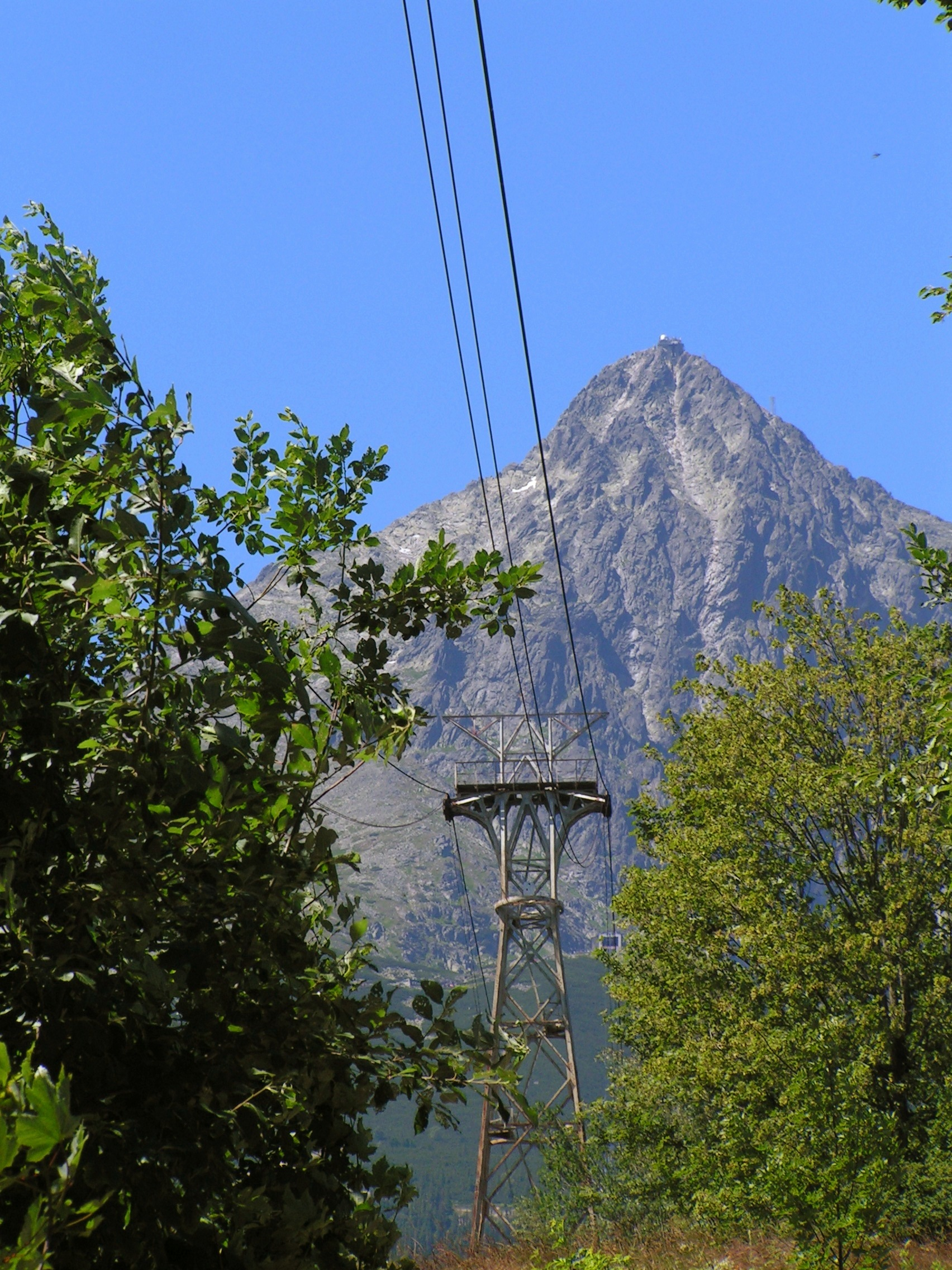 Support pillar of 1st segment of Tatranská Lomnica–Lomnický štít aerial tramway. The small building is midlle station Štart. In background there is peak Lomnický štít with mountain station and meteorological station.